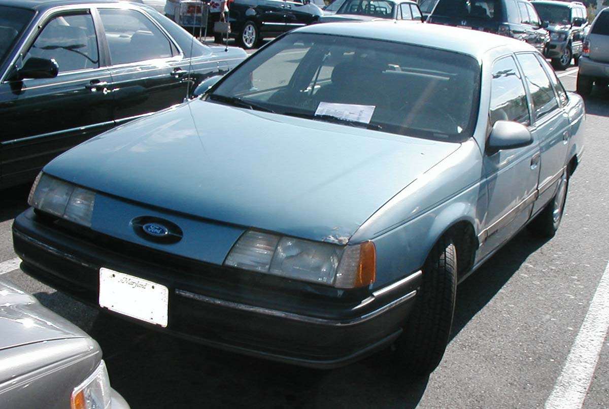 1986-1991 Ford Taurus photographed in USA.